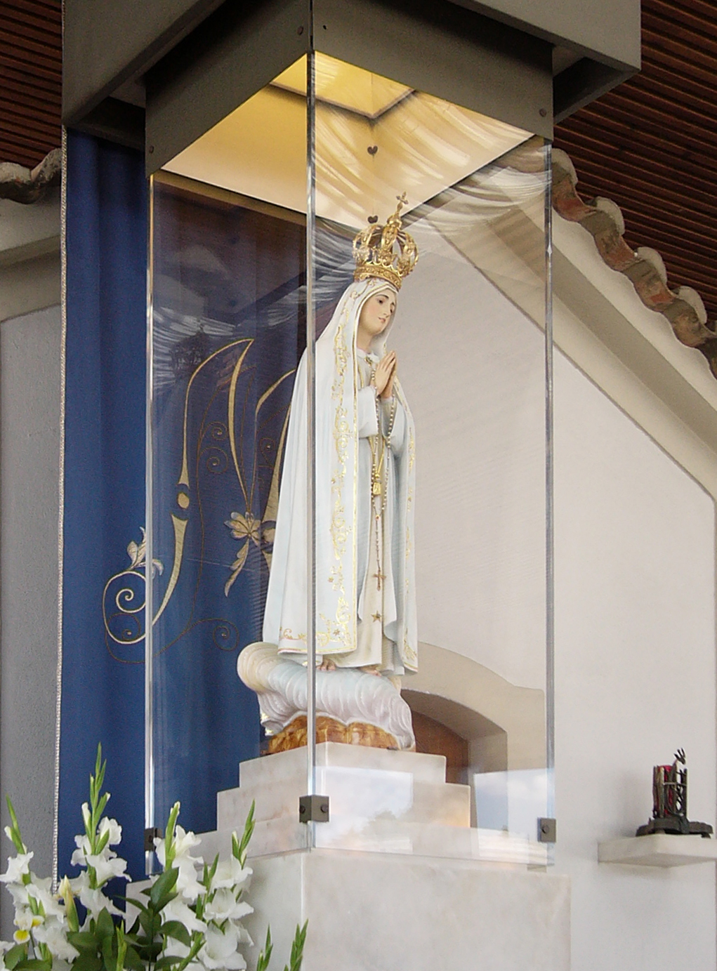 Description: Virgin Subject: Virgin of Fatima City : Fatima Country : Portugal Photographer: © Manuel González Olaechea y Franco Shot date : April, 15th, 2004